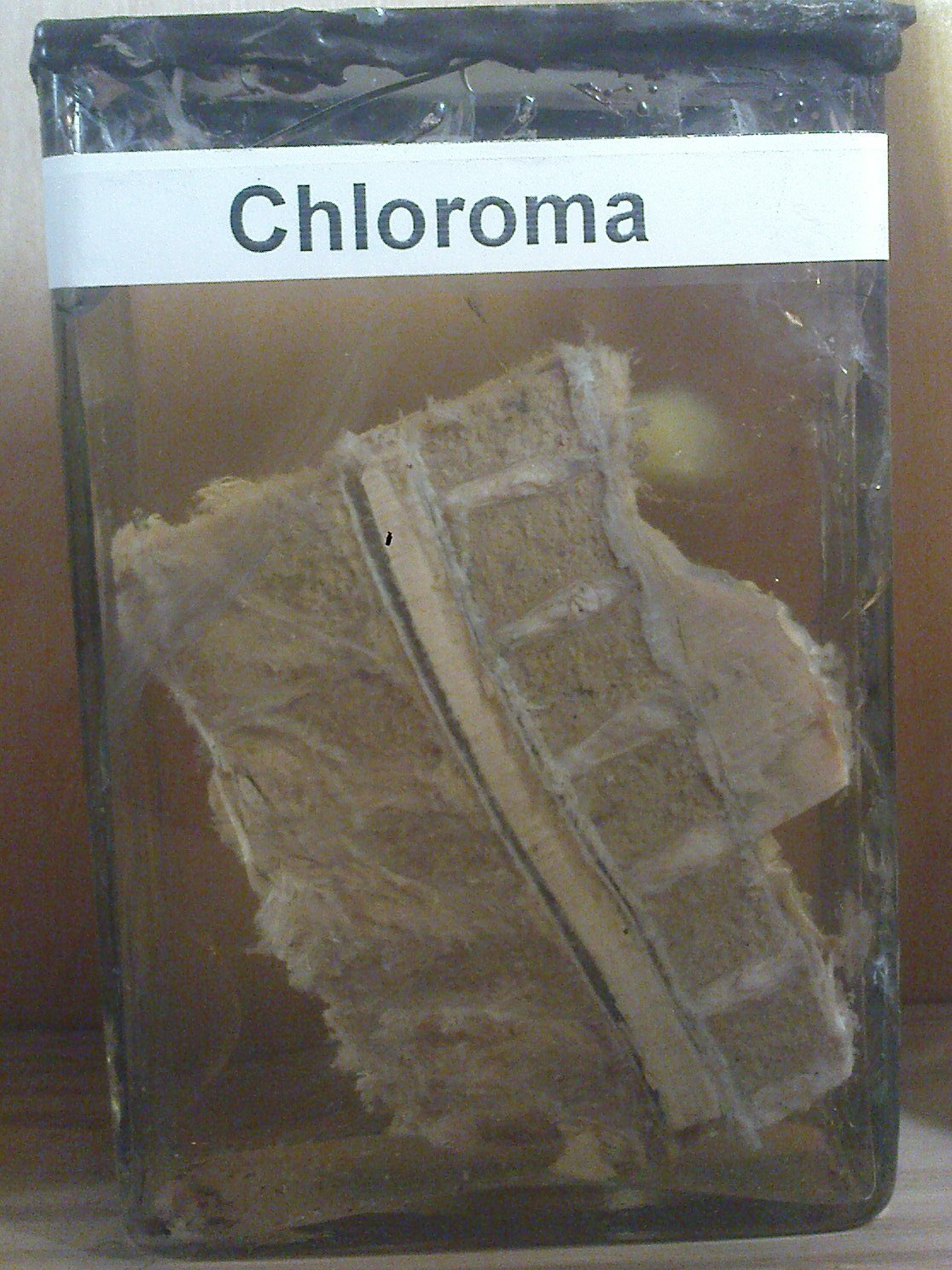 Myeloid sarcoma. Formulation "Chloroma" exhibition in the hallway of the building at Jagiellonian University in Krakow Grzegórzecka 16.